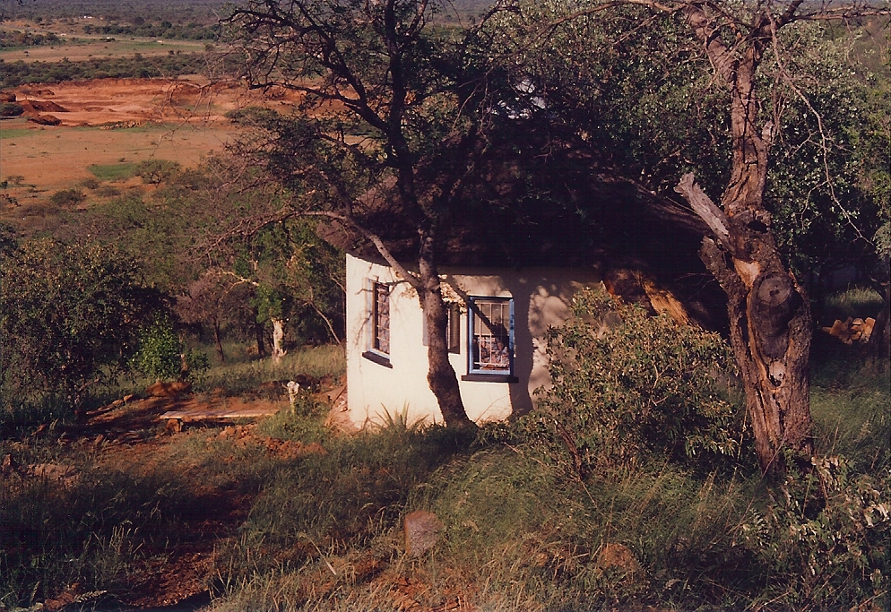 One of the original staff houses at Swaneng Hill School, Serowe, Botswana, built by Patrick van Rensburg's Serowe Brigades. Taken 1995 on film.